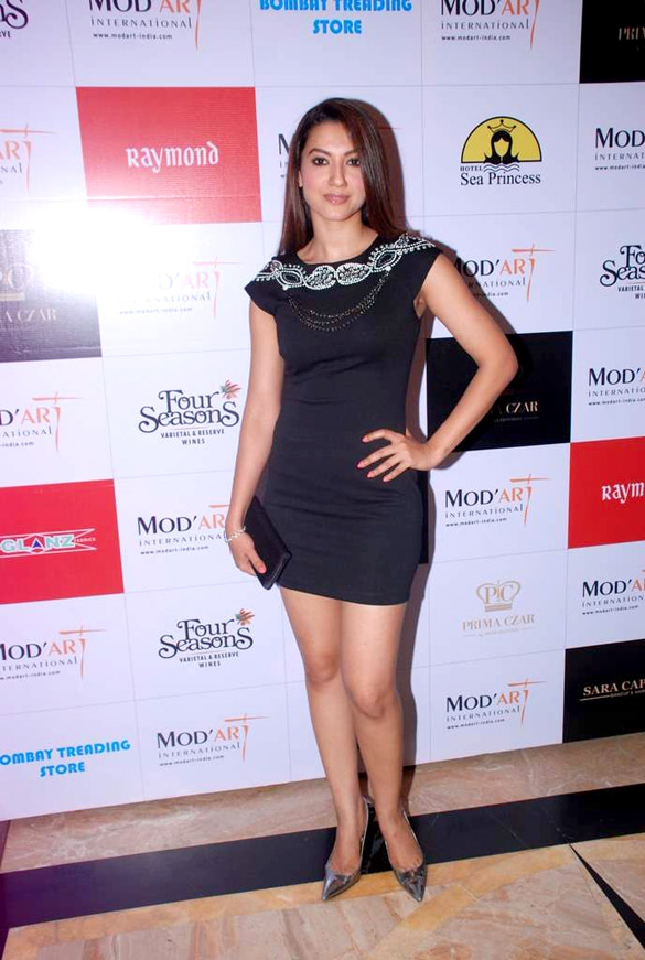 Gauhar Khan at the Mod'Art Fashion Show